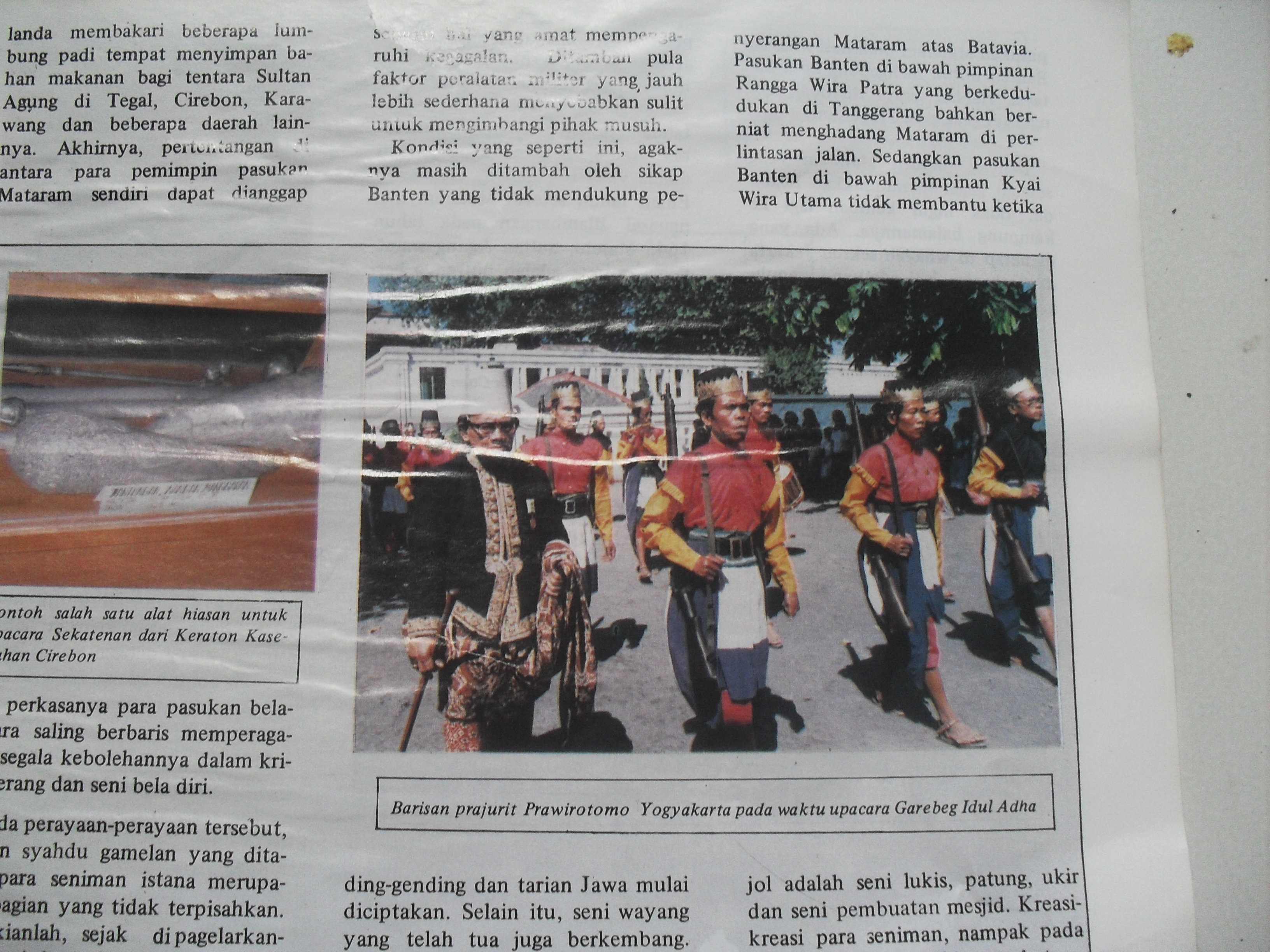 seragam prajurit